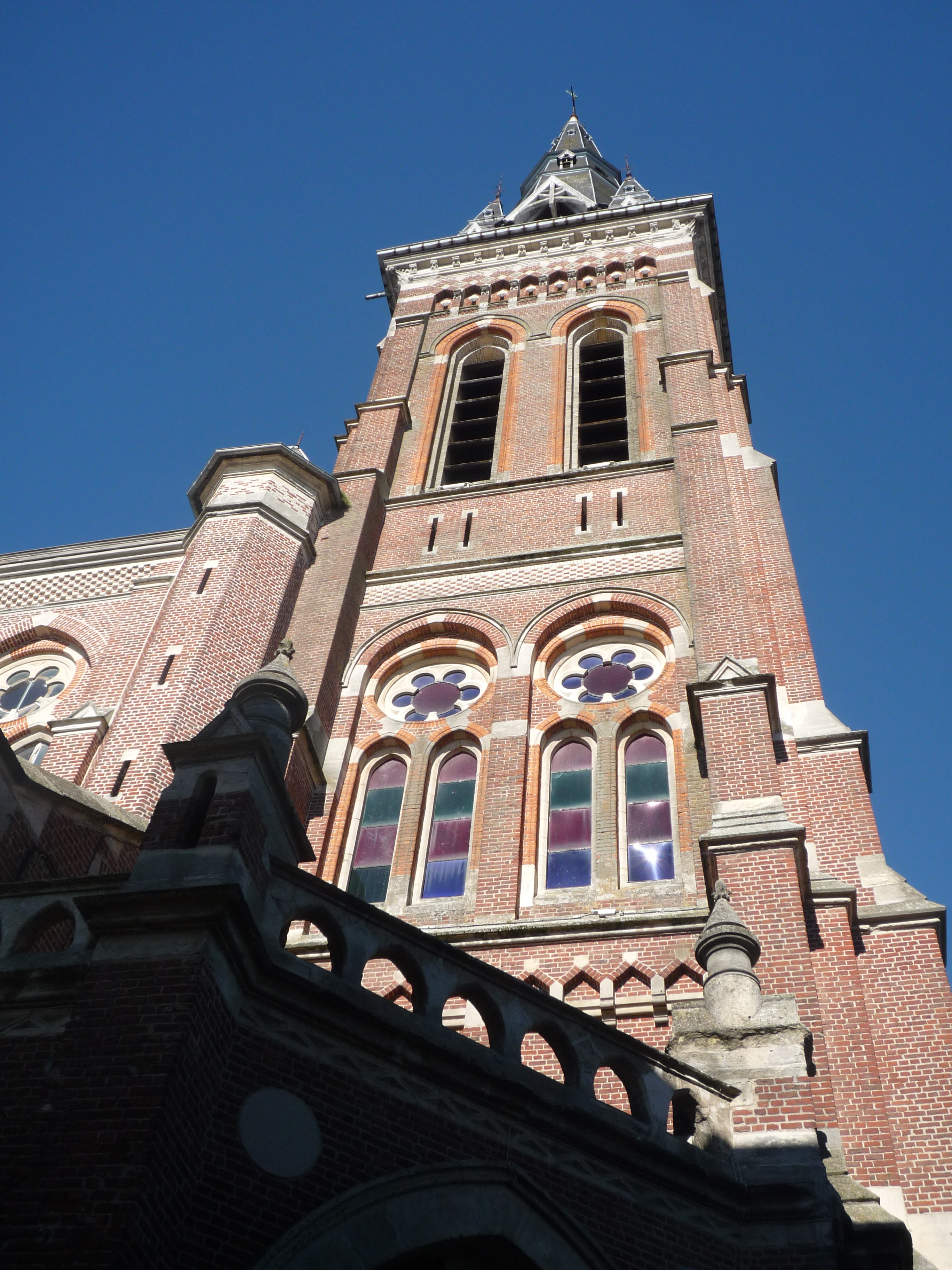 Basilique Sainte-Maxellende, Caudry, Nord-Pas-de-Calais, France.